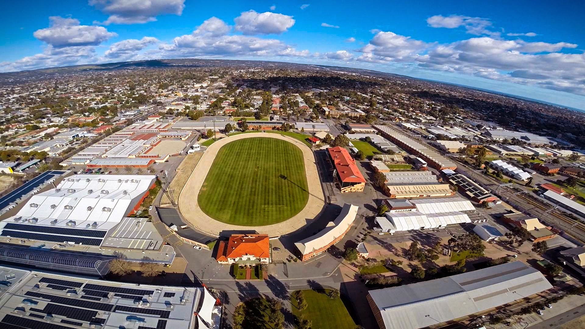 Adelaide Showgrounds getting ready